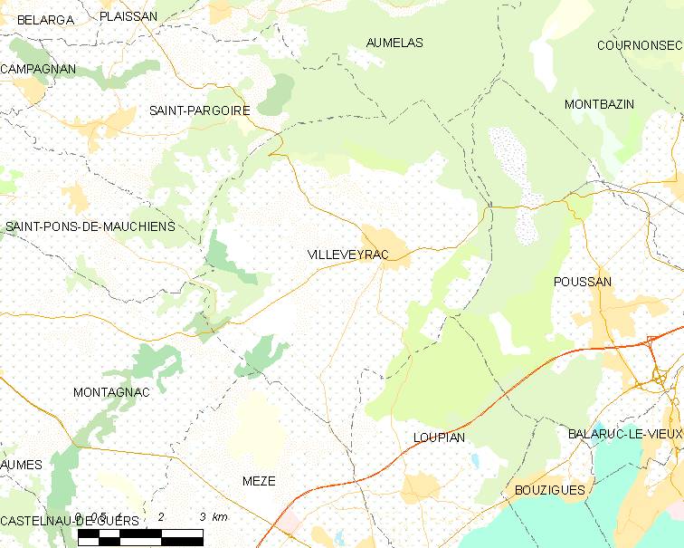 Map commune FR insee code 34341.png - Villeveyrac